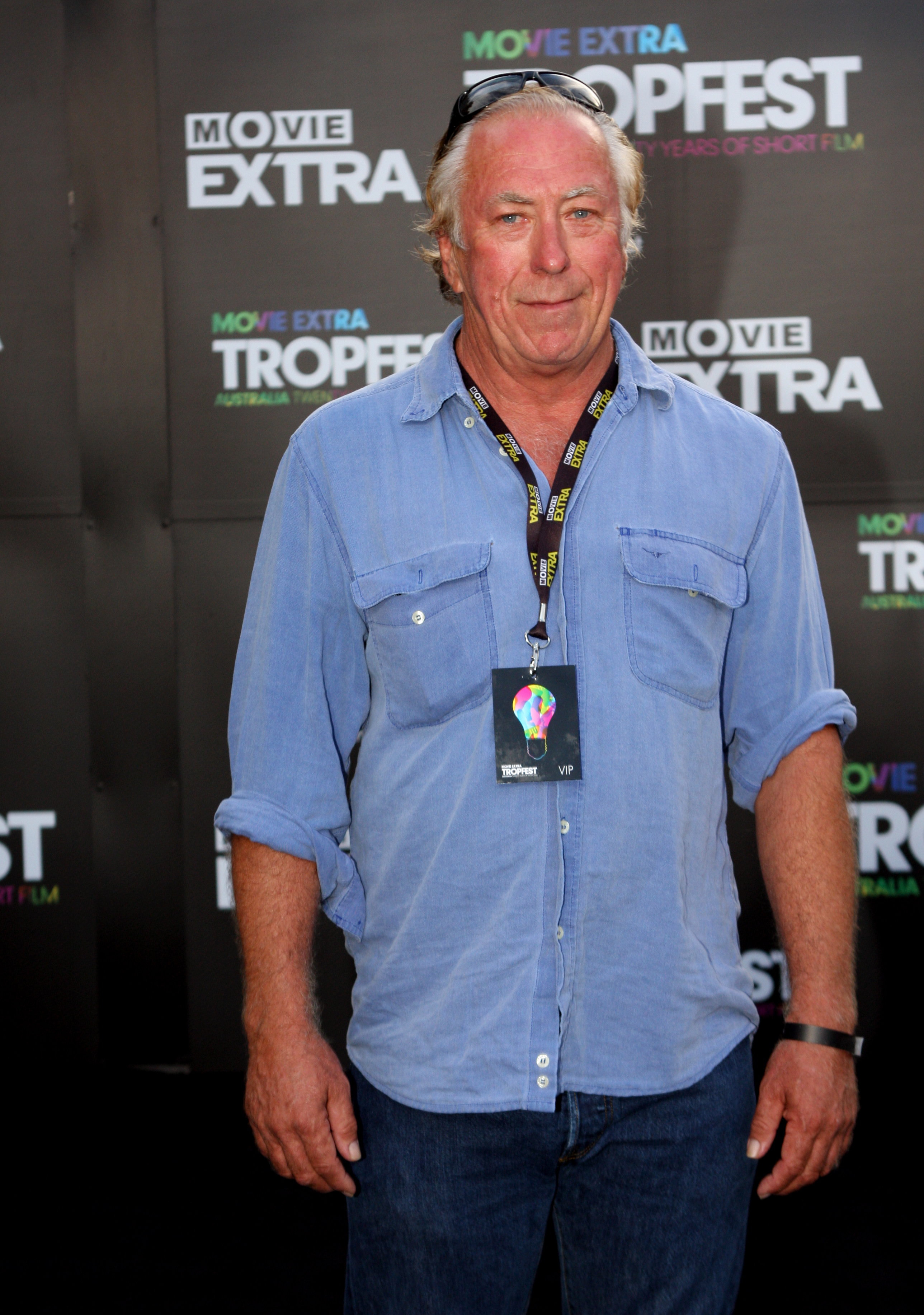 Steve Bisley , (born 26 December 1951 at Lake Munmorah, New South Wales) is an Australian film and television actor, who attended the National Institute of Dramatic Art (NIDA).